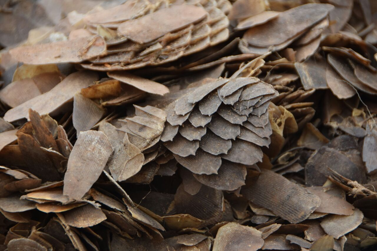 Close-up of some of the confiscated pangolin scales. Album description: "On the eve of World Pangolin Day, the U.S. Fish and Wildlife Service commends the Government of Cameroon for its destruction today of approximately 3 metric tons of confiscated pangolin scales. Pangolins are believed to be the most heavily trafficked wild mammals in the world, with as many as 1 million pangolins being poached from the wild during the last decade. Today’s pangolin scale burn event, the first of its kind in Africa, will send a strong message that the poaching of pangolins and trafficking of their meat and scales will no longer be tolerated in Cameroon."